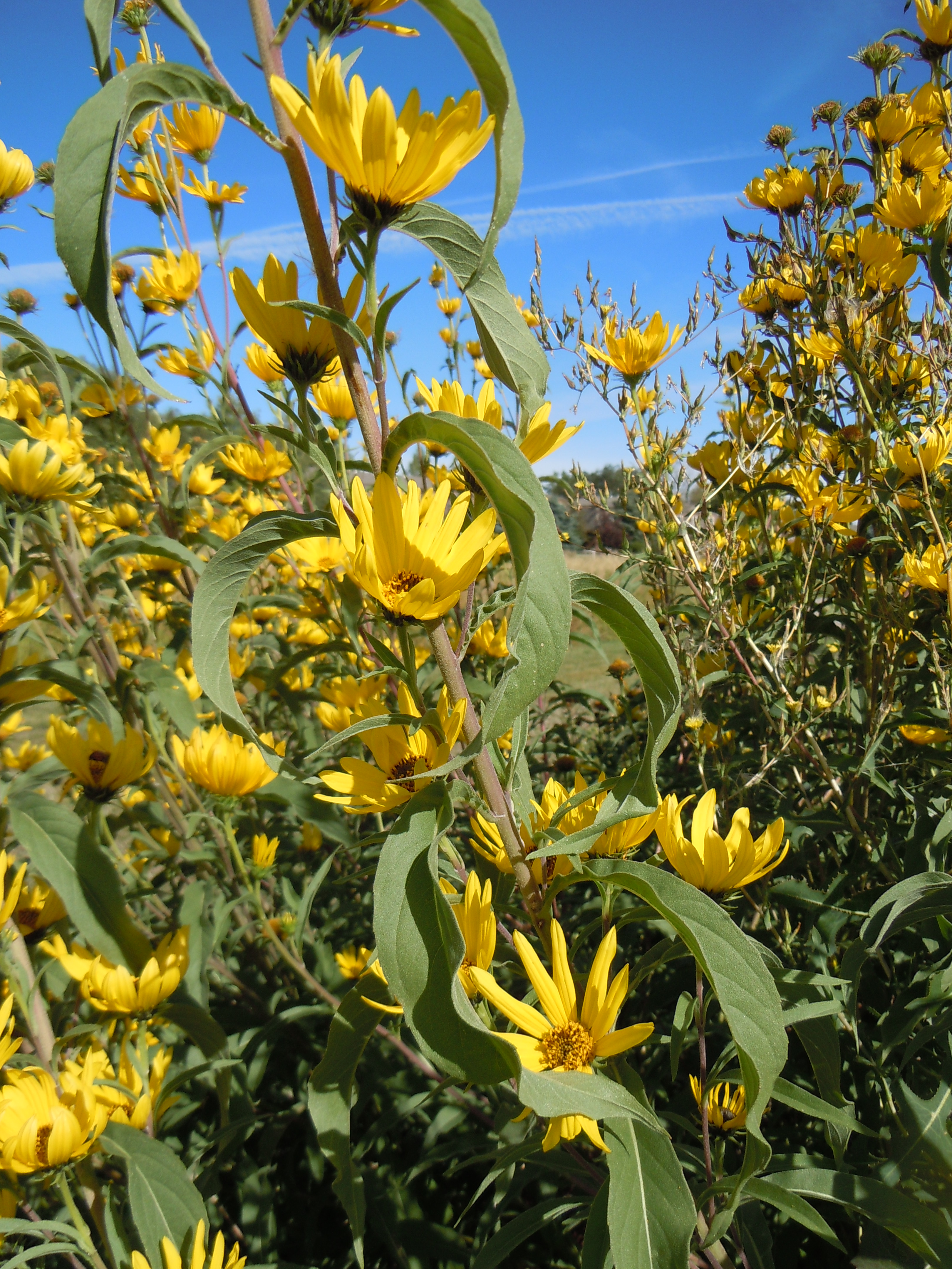 The stem leaves are distinctive in arcing outward or downward and tending to be folded along the midrib.